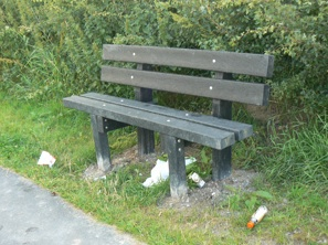 Ribble Link seating